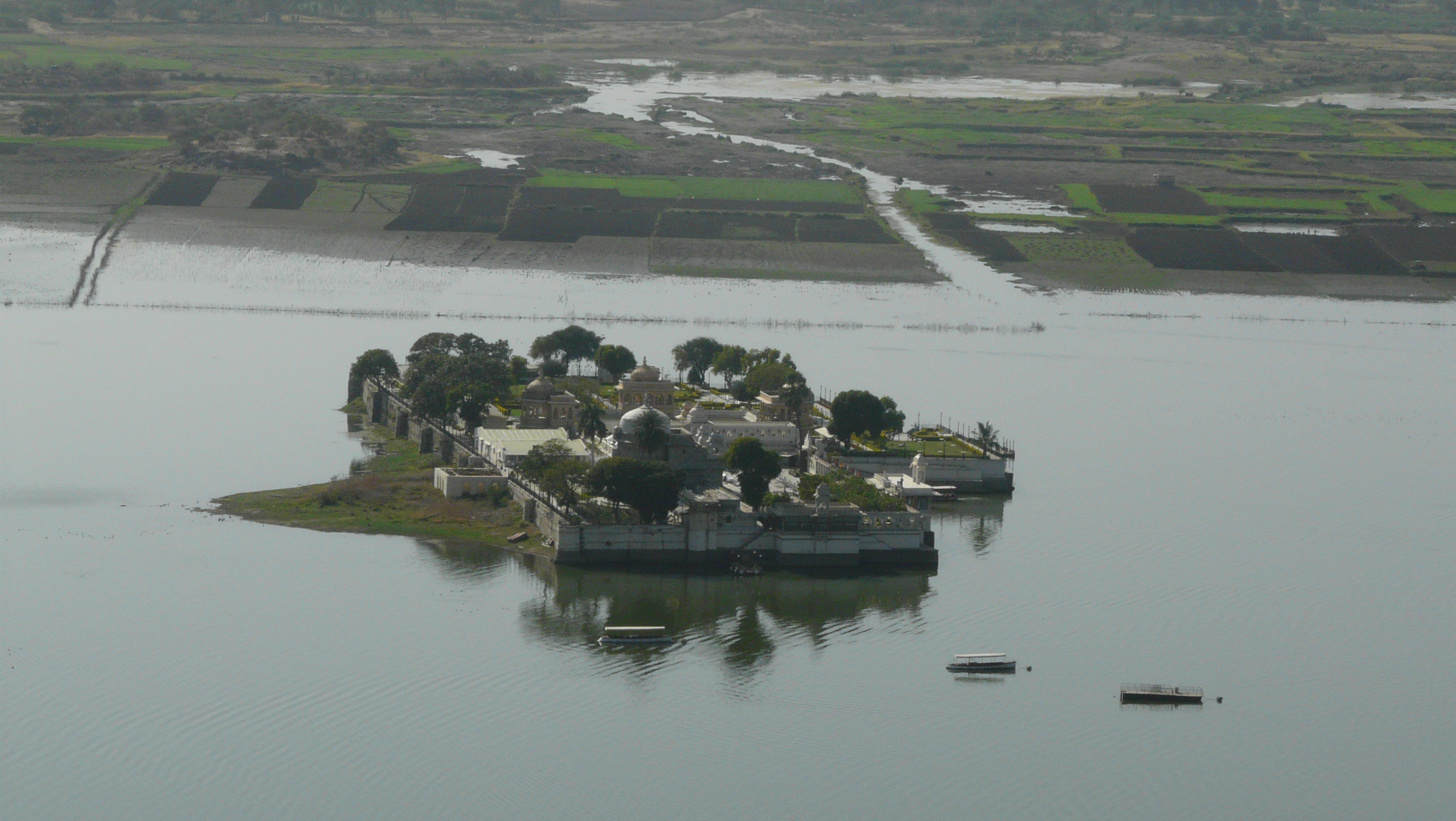 Jag Mandir Palace (from east)